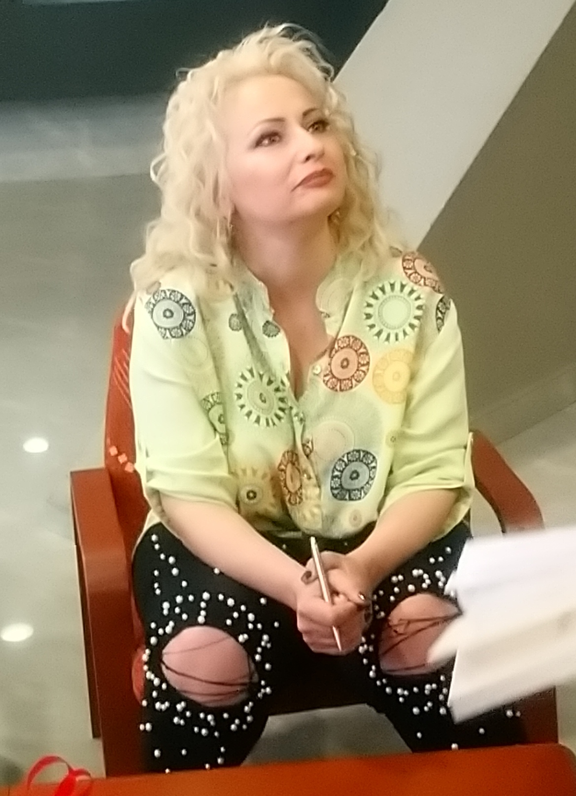 Katerina Hapsali on the presentation of her book Slivovitz at Stara Zagora Regional History Museum, April 22, 2019